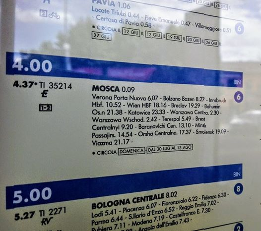 Riviera Express - Timetable in Milano Rogoredo